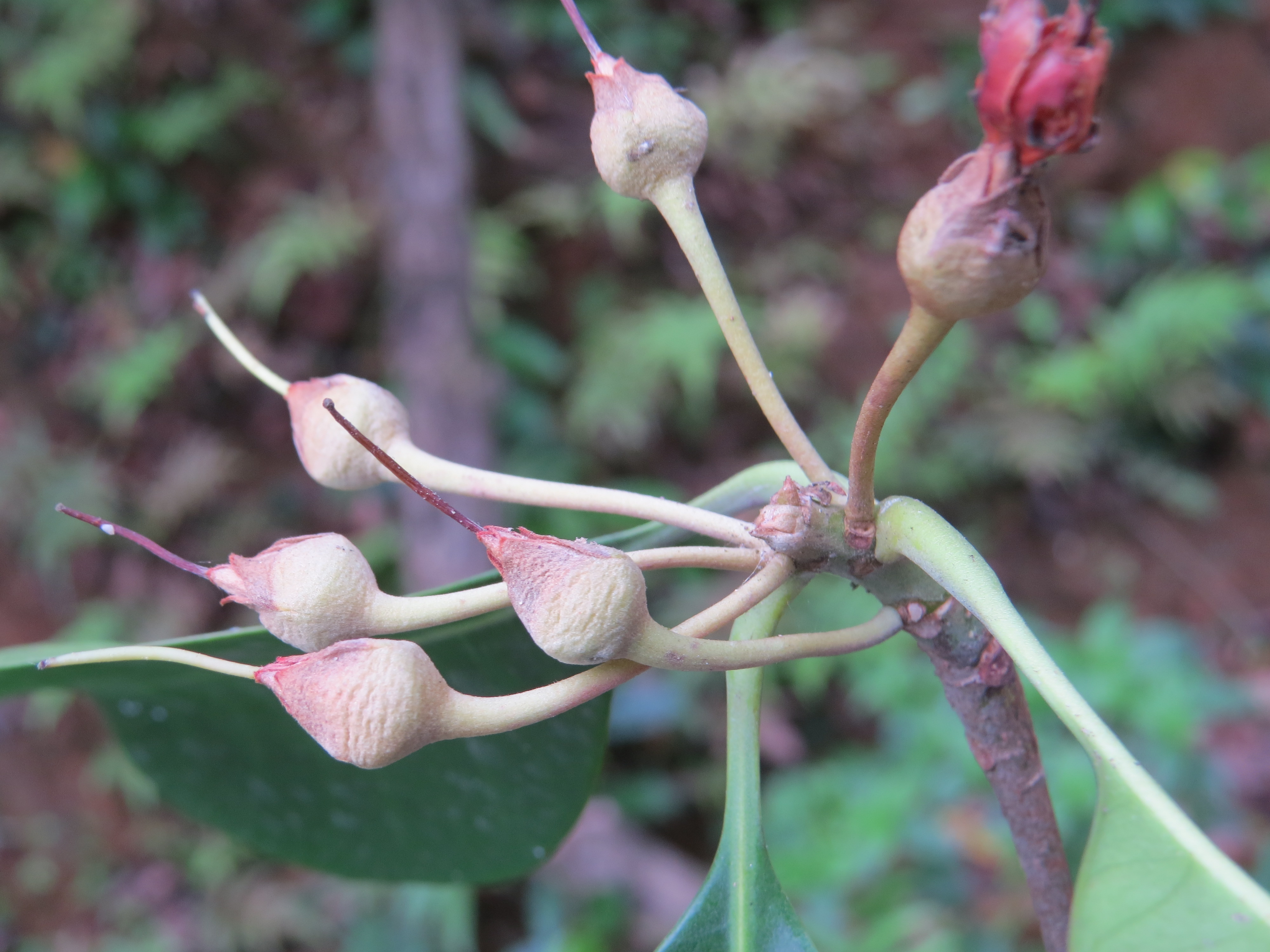 Palaquium ellipticum